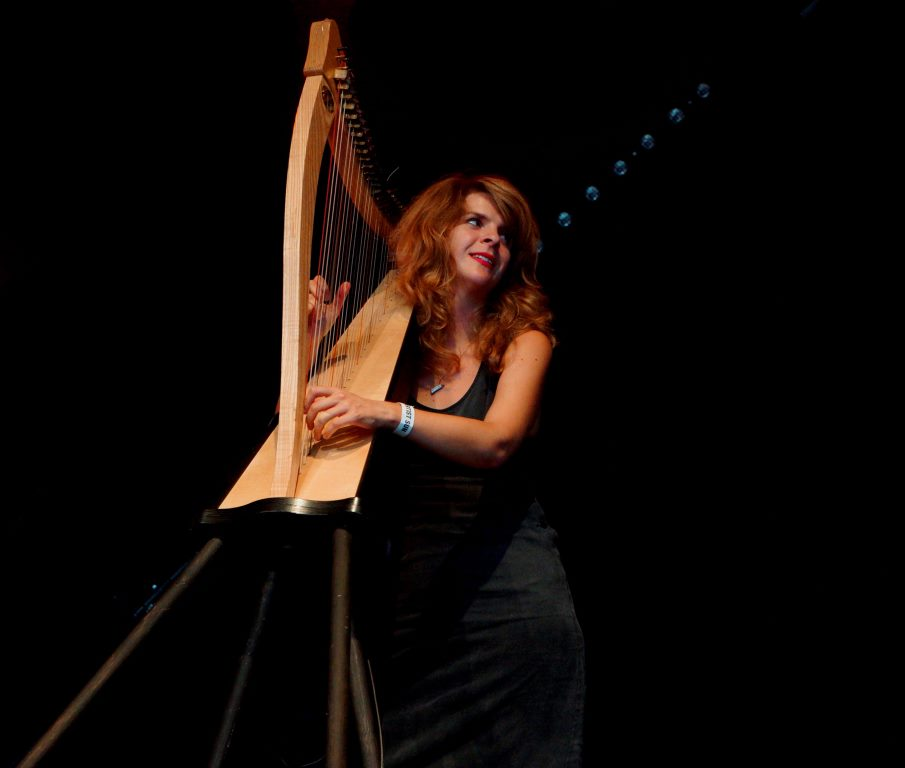 Serafina Steer performing with Patrick Wolf at Manchester Pride on Sunday 25th August 2013